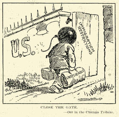 A political cartoon from the First Red Scare advocating restrictions on immigration.